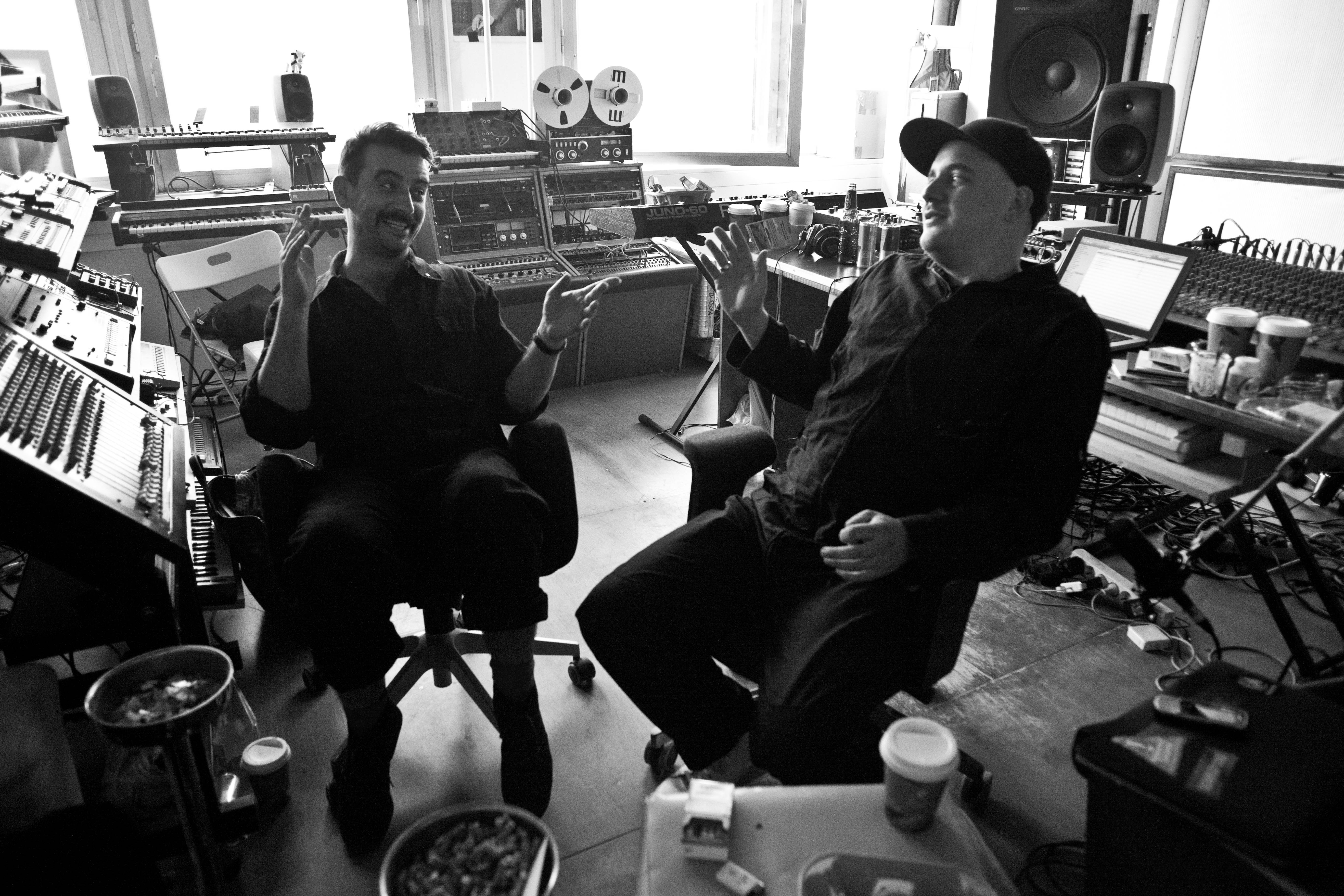 Modeselektor in the Studio during/after the recording of their third full lenght album "Monkeytown